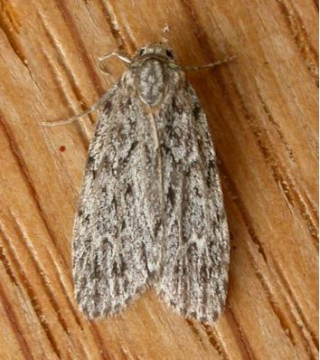 Halone prosenes Turner, 1940, to MV light, Aranda, ACT, 27/28 November 2010